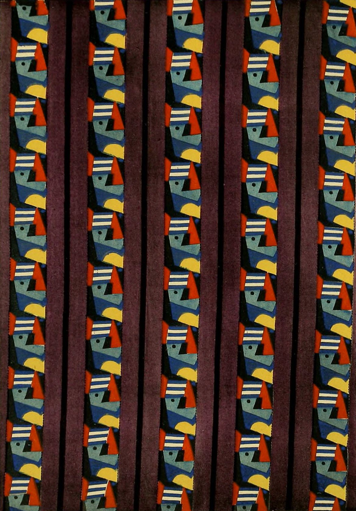 [Detail] Étoffes imprimées et papiers peints (1924) In the Mary Ann Beinecke Decorative Art Collection. Sterling and Francine Clark Art Institute Library.